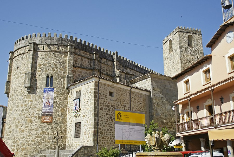 Iglesia de Nuestra Señora de la Torre